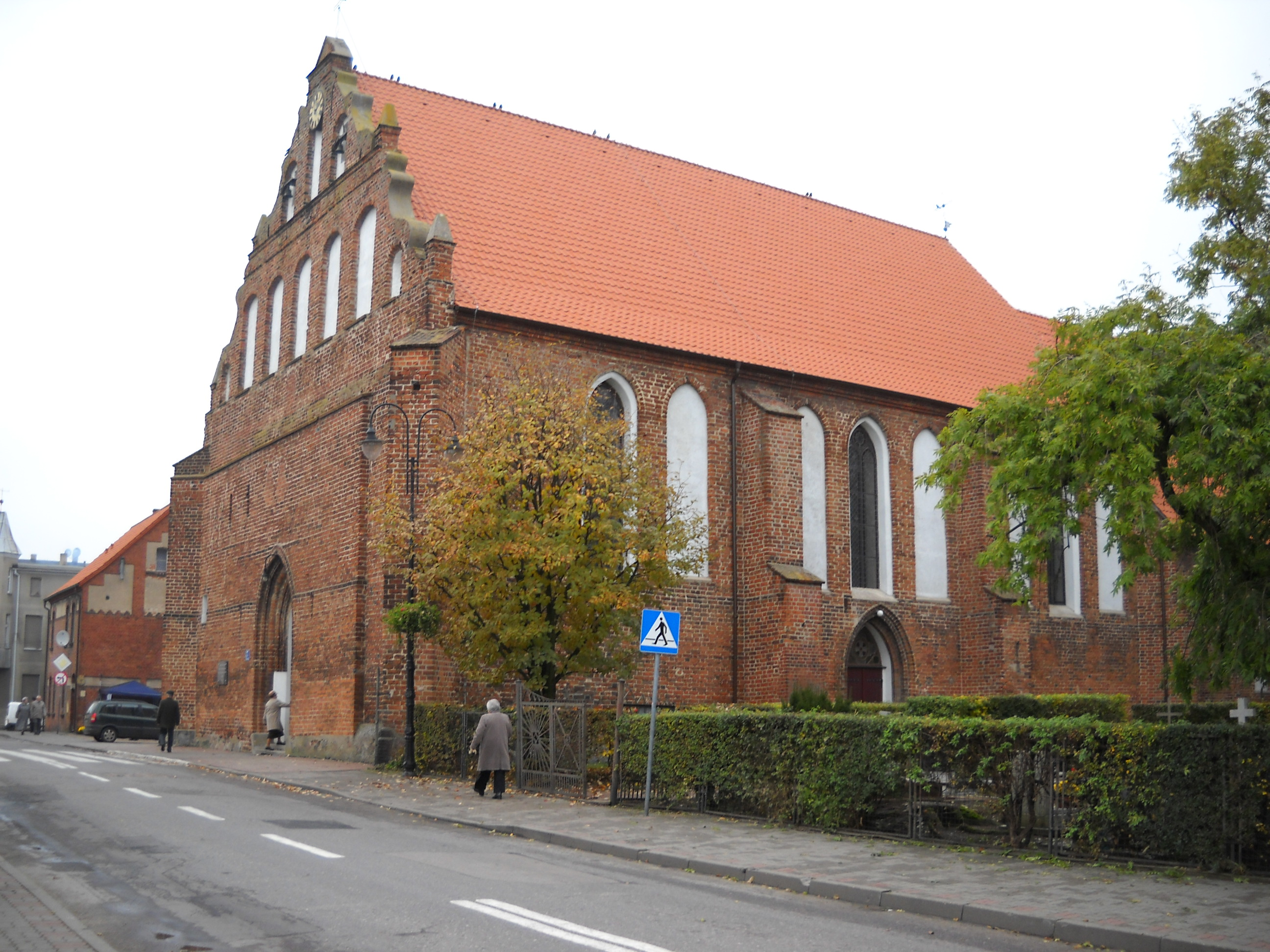 Łasin Church